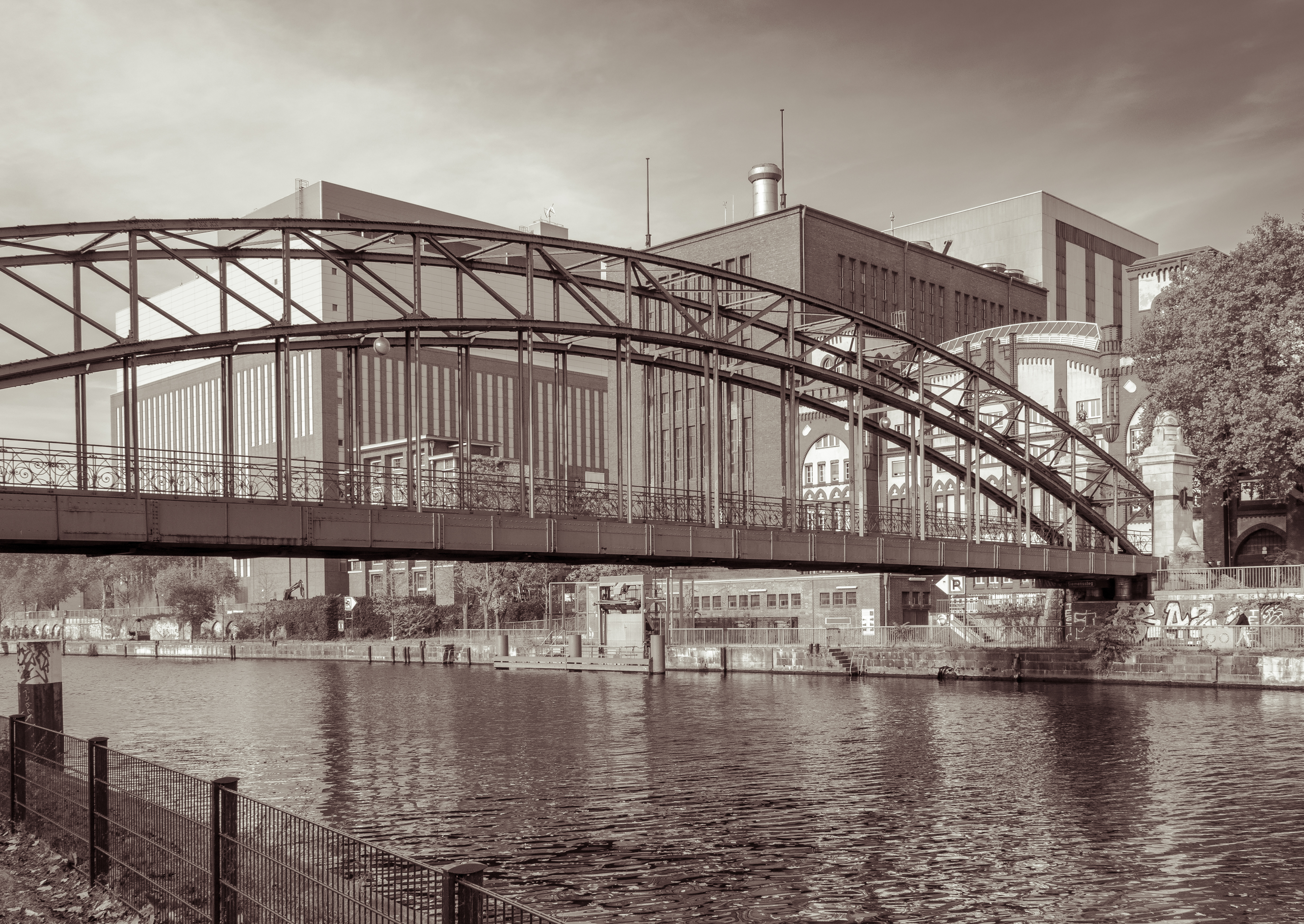 Berlin, Spree, Spree-side view of Heizkraftwerk Charlottenburg from Iburger Ufer